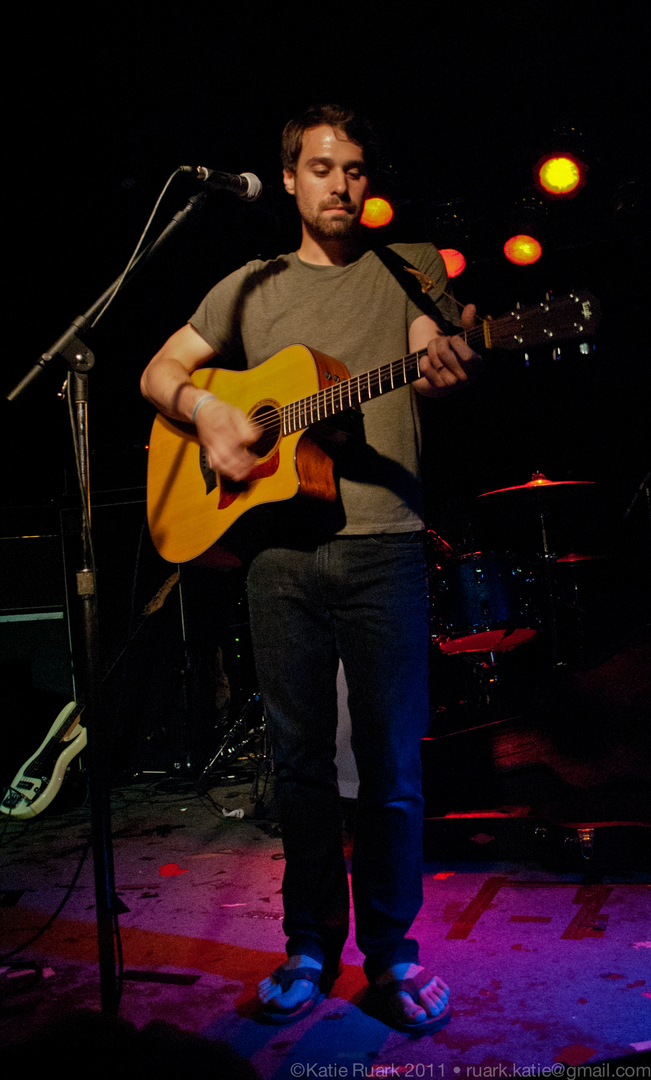 Jon Walker at the Beat Kitchen, 5/21/2011